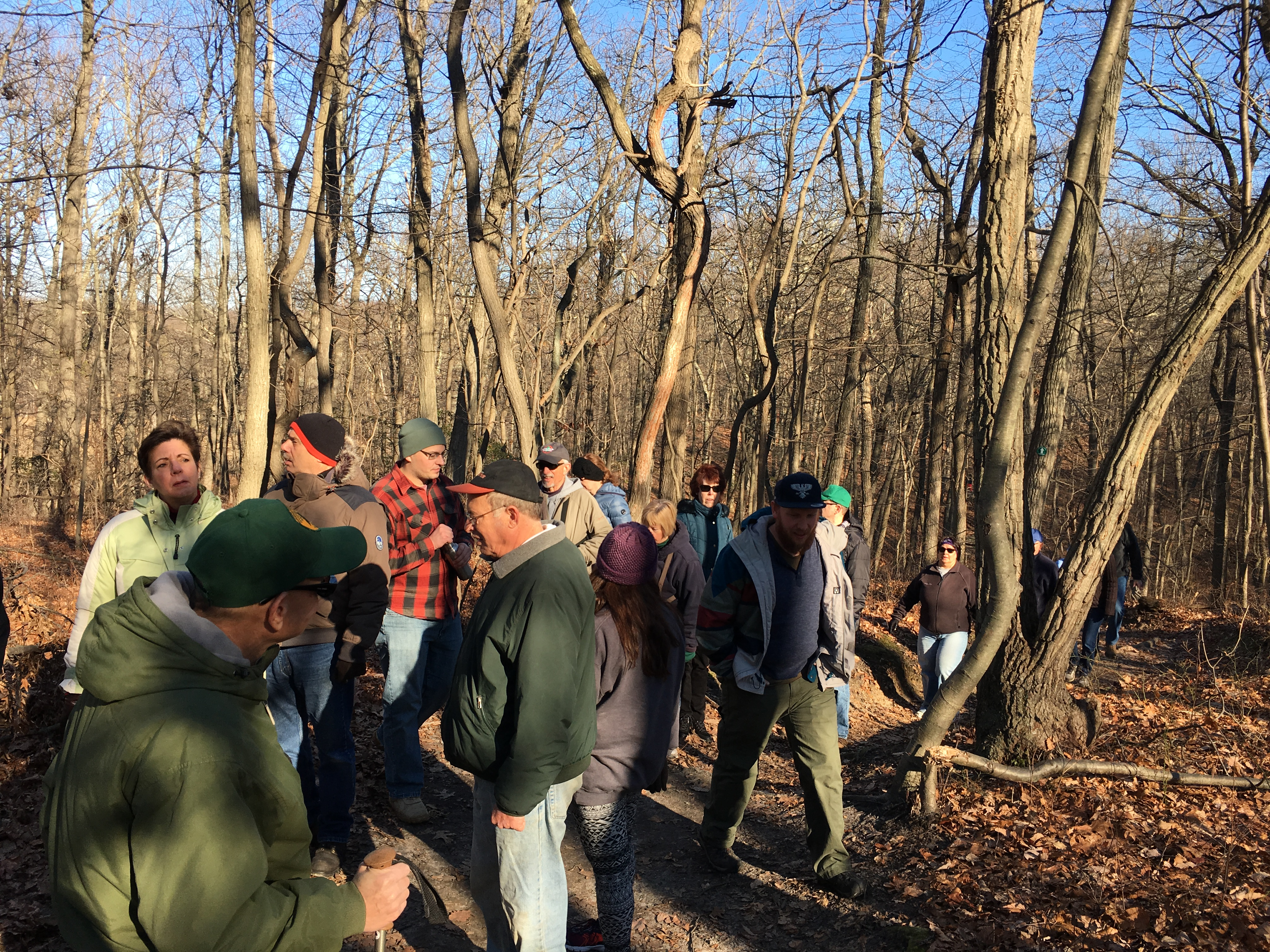 During the First Day Hike at Cheesequake State Park in Middlesex County, New Jersey in 2017, the guide (green hat, front far left) checks on the progress of the group of about 70 participants as they make their way through the wooded section of the park shared by several trails.